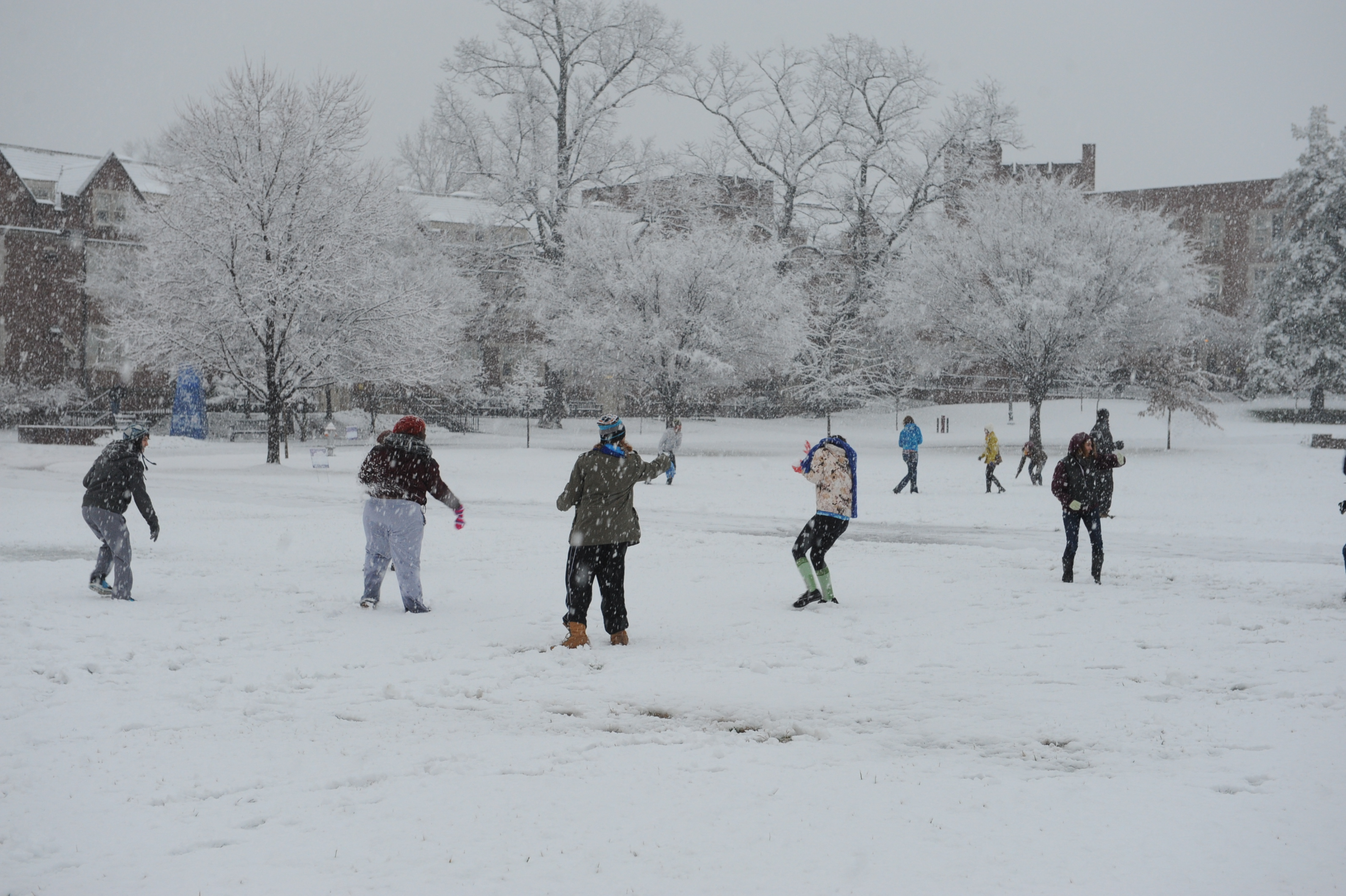 Students compete in a friendly snowball fight on January 13th.